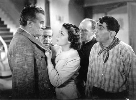 La casa de Quirós-película argentina de 1937